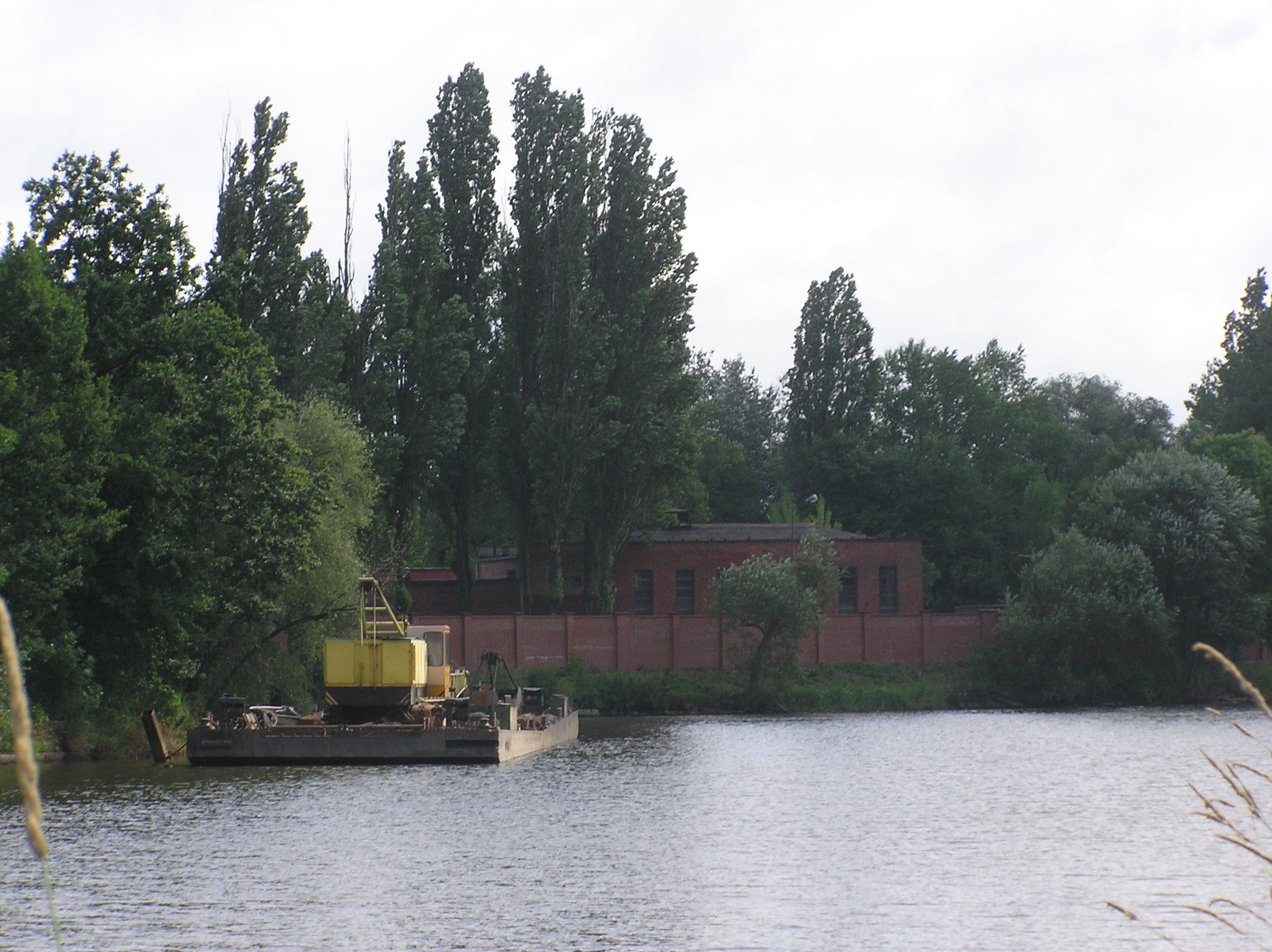 Wrocław, Shipping canal, Wrocław Shipyard River, Military port of transshipment of liquid fuels